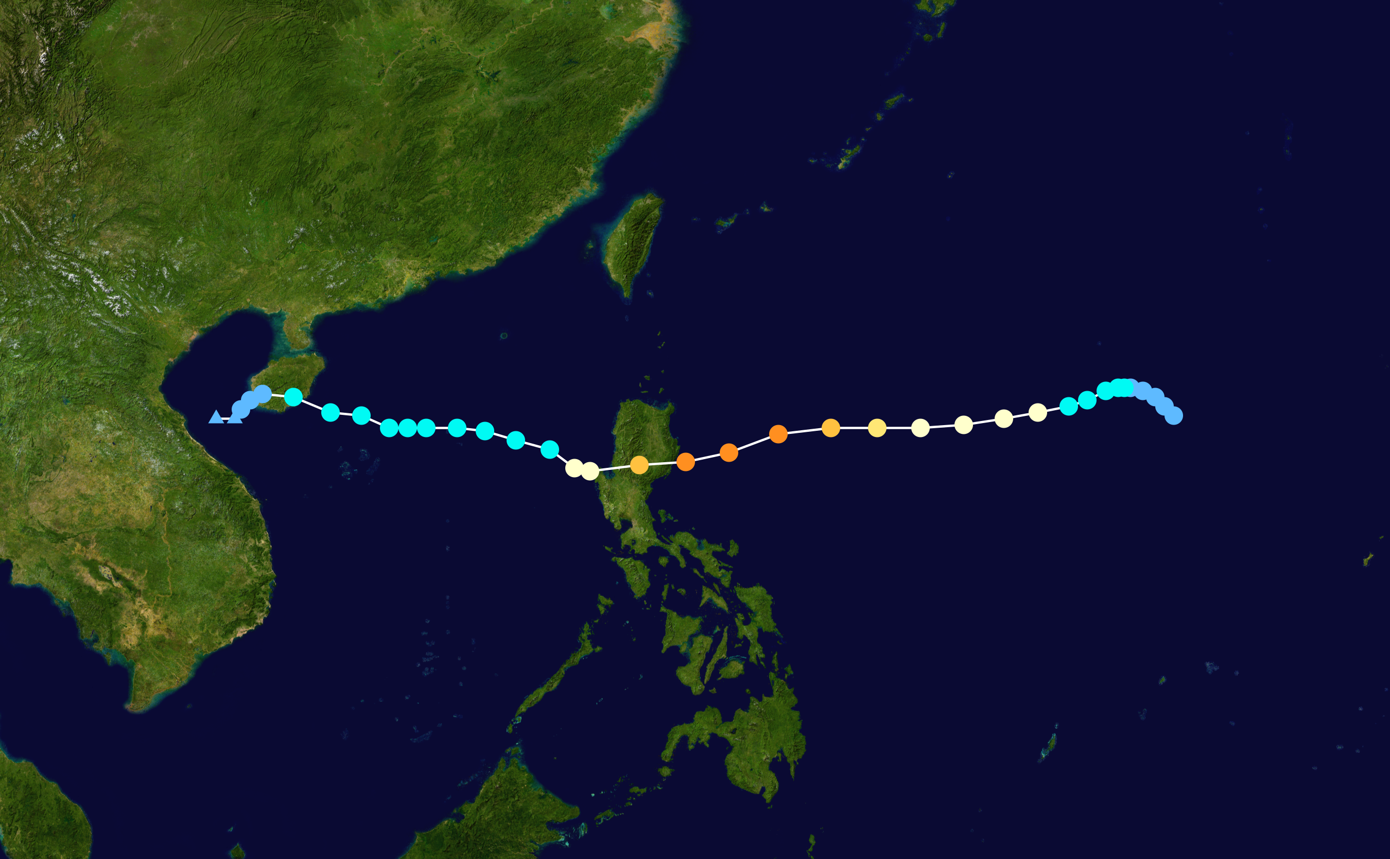 Track map of Typhoon Nalgae of the 2011 Pacific typhoon season. The points show the location of the storm at 6-hour intervals. The colour represents the storm's maximum sustained wind speeds as classified in the Saffir–Simpson scale (see below), and the shape of the data points represent the nature of the storm, according to the legend below. Saffir–Simpson scale Tropical depression≤38 mph≤62 km/h Category 3111–129 mph178–208 km/h Tropical storm39–73 mph63–118 km/h Category 4130–156 mph209–251 km/h Category 174–95 mph119–153 km/h Category 5≥157 mph≥252 km/h Category 296–110 mph154–177 km/h Unknown Storm type Tropical cyclone Subtropical cyclone Extratropical cyclone / Remnant low / Tropical disturbance / Monsoon depression